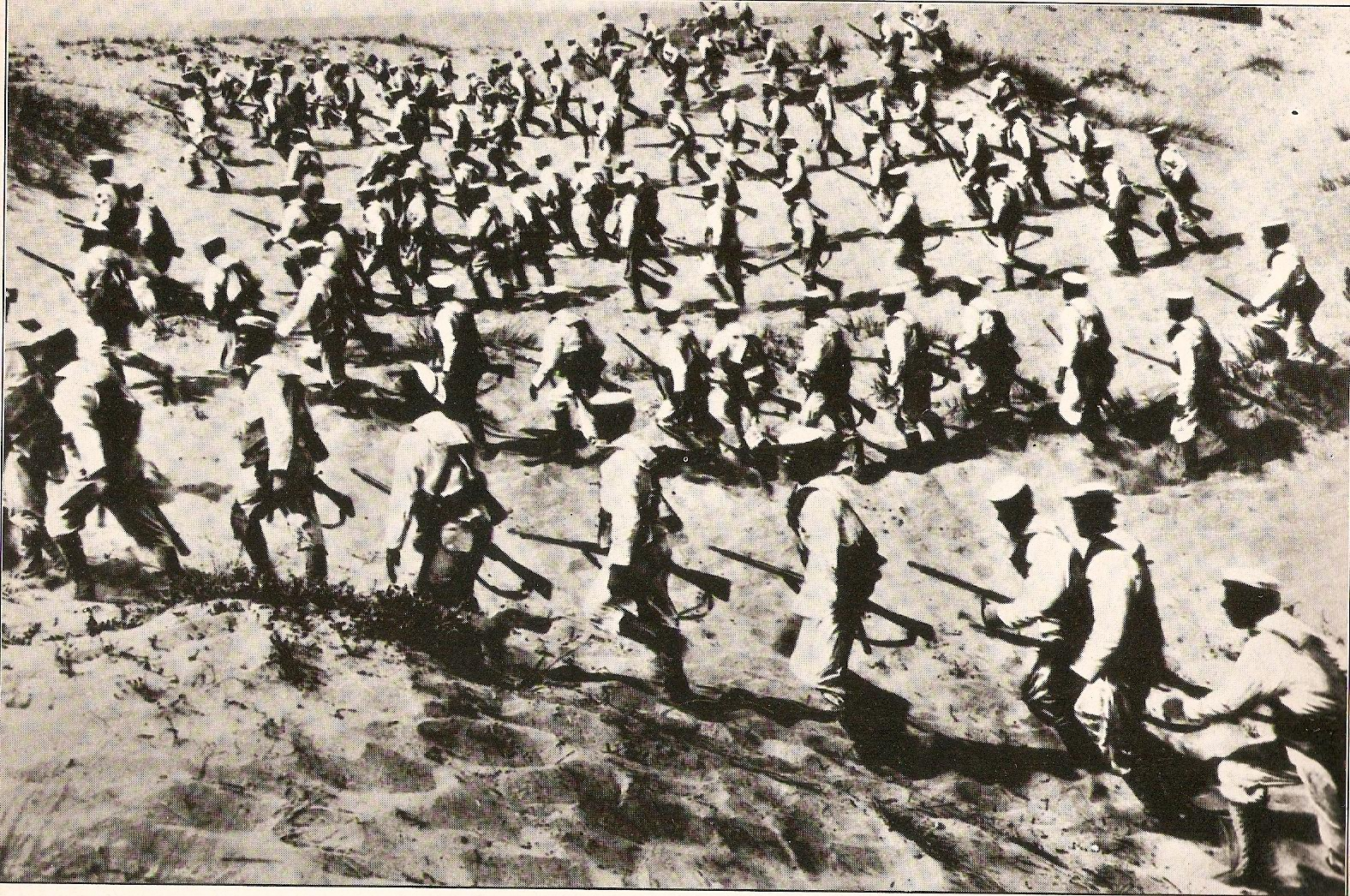 Italian marine troops landing at Tripoli.